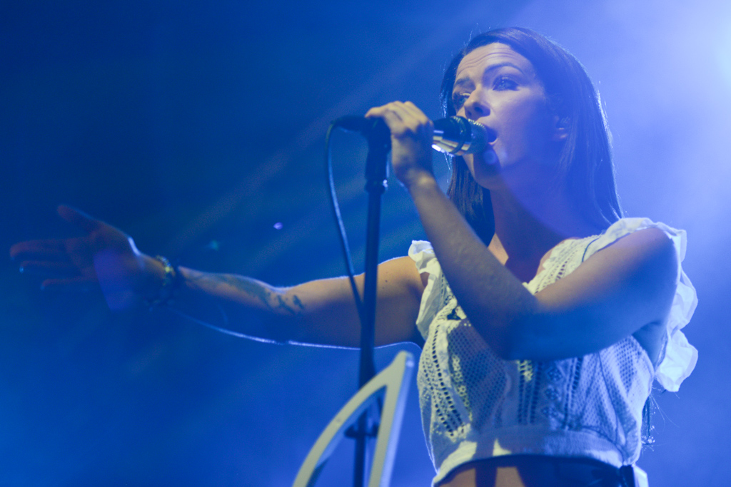 Jula, Julita Fabiszewska, polish singer, vocalist. Concert photography, Poland, Bielsko-Biala, 2017